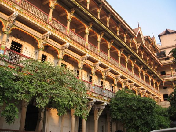 The Worlds First Swaminarayan Temple in Kalupur Ahmedabad Gujarat India. Established by Shree Swaminarayan Bhagwan Himself.